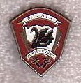 Official emblem of Crni Labudovi